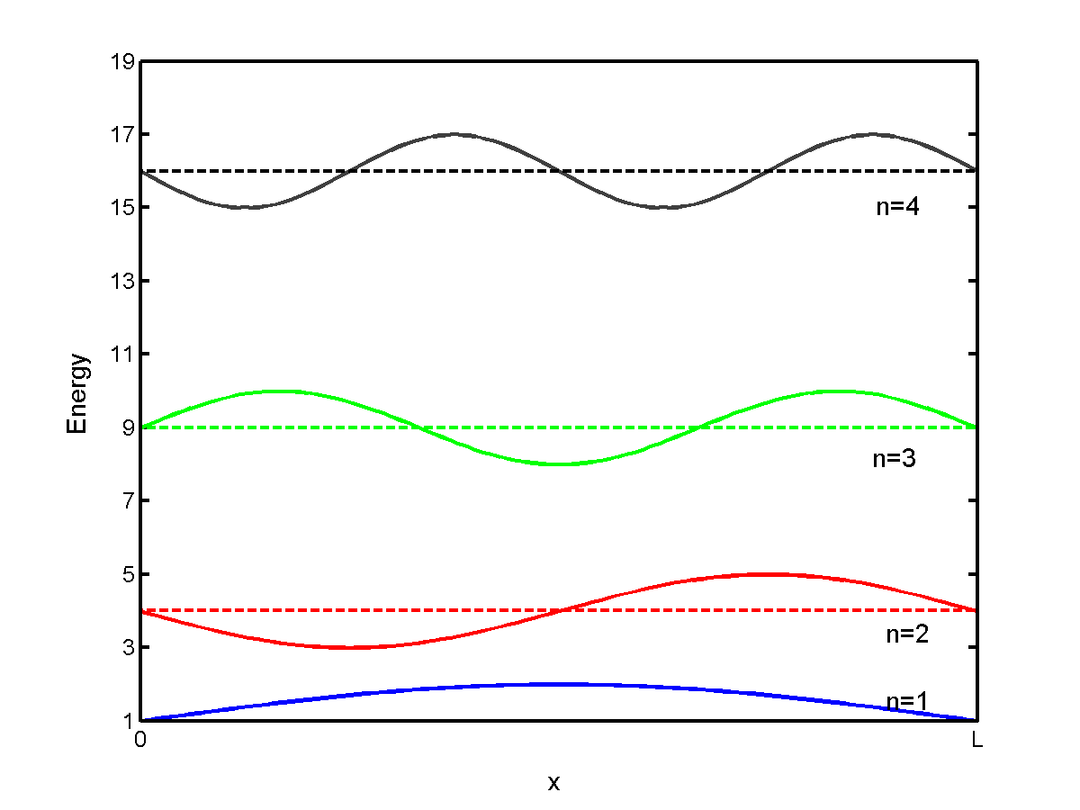 Created the image using MATLAB.